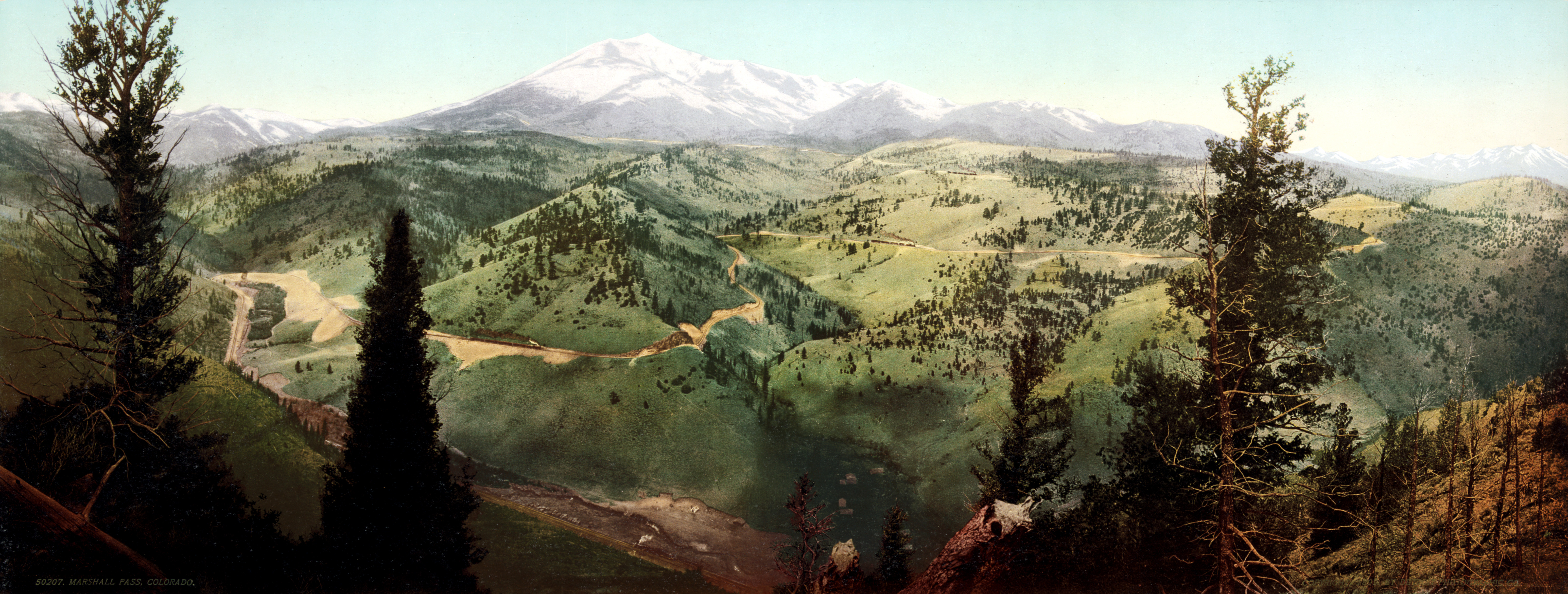 Photochrom print of Marshall Pass and Mount Ouray.